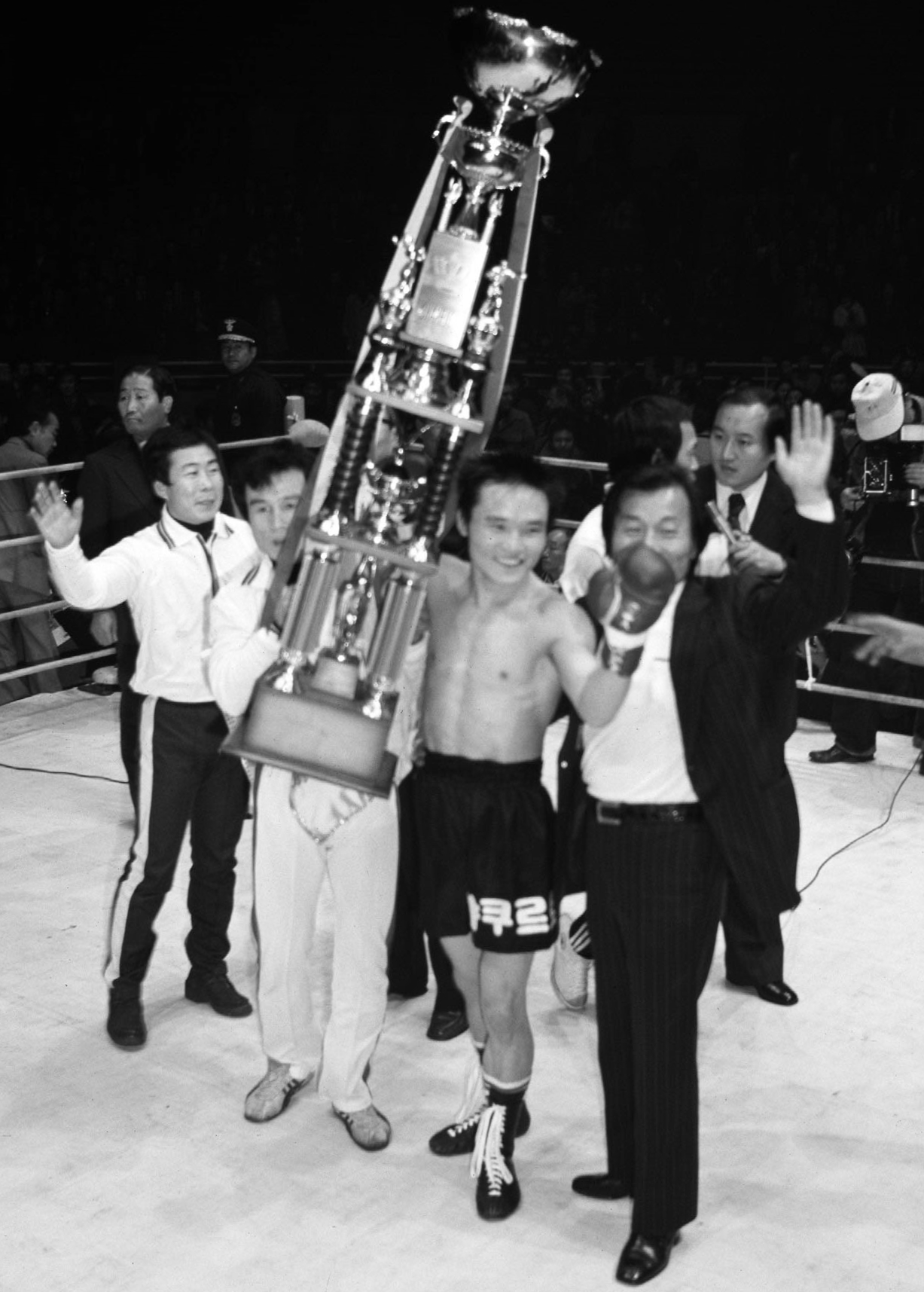 Dong-Kyun Yum on November 24, 1976 when he was crowned the WBC super bantamweight champion.